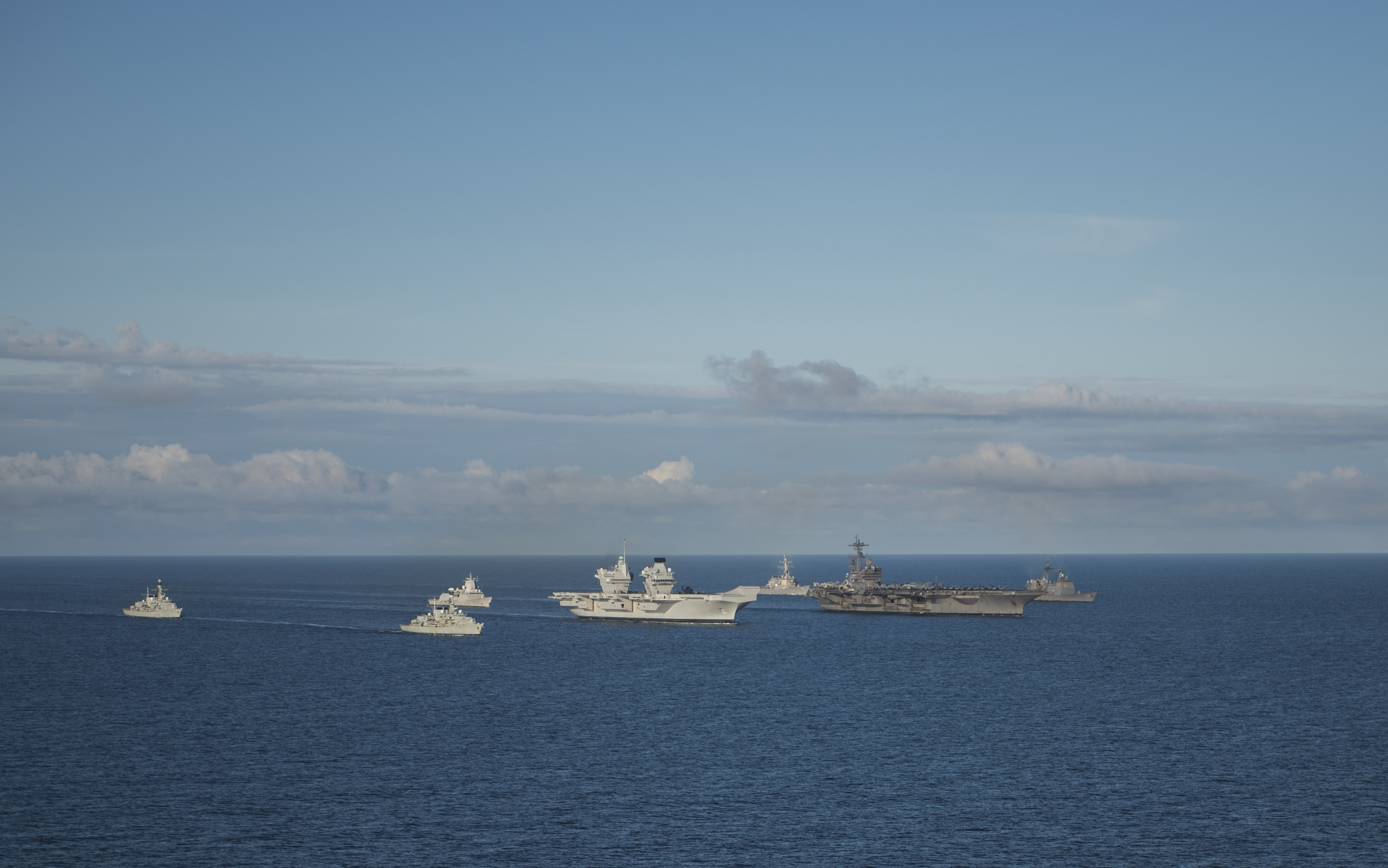 The Royal Navy frigates HMS Iron Duke (F234), left, and HMS Westminster (F237), the Royal Norwegian Navy frigate KNM Helge Ingstad (F313), the Royal Navy aircraft carrier HMS Queen Elizabeth (R08), the U.S. Navy guided-missile destroyer USS Donald Cook (DDG-75), the aircraft carrier USS George H.W. Bush (CVN-77), and the guided-missile cruiser USS Philippine Sea (CG-58) underway in formation during exercise "Saxon Warrior 2017", 8 August 2017.